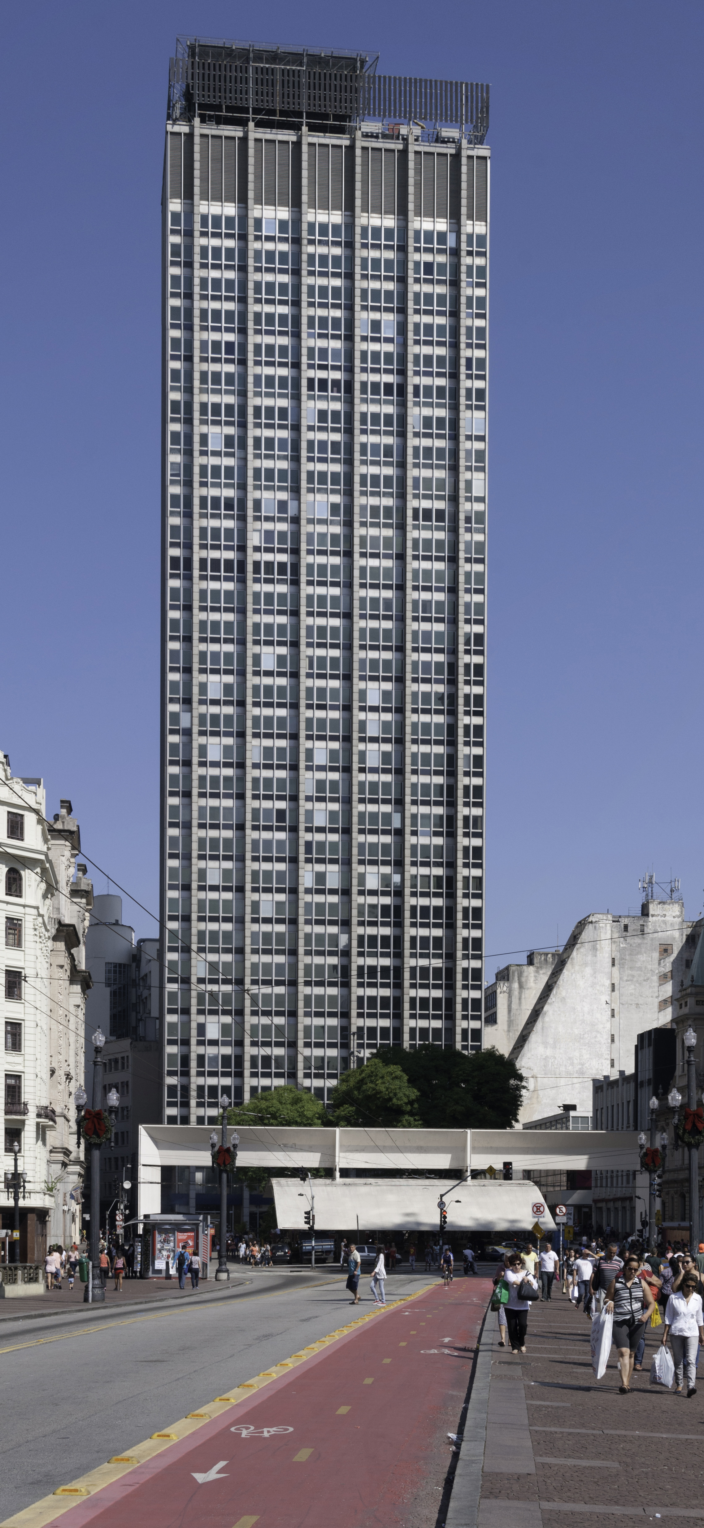 Edifício Barão de Iguape, taken from Viaduto do Chá